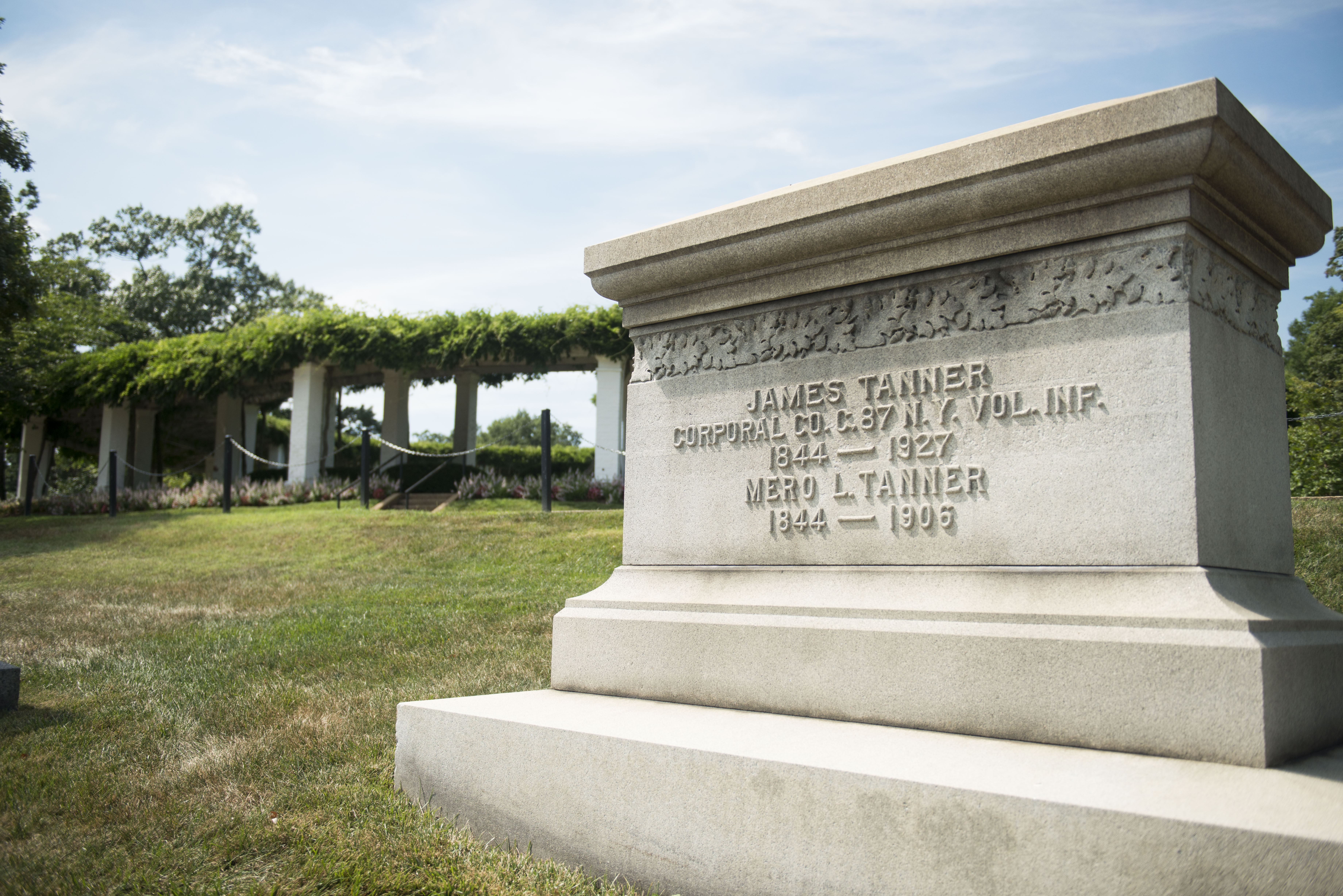 James R. Tanner, a corporal in the 87th New York Volunteer Infantry during the Civil War, suffered a gruesome wound at the Second Battle of Bull Run in August 1862 which resulted in the loss of both legs. After the war, this wounded warrior became a stenographer and was present both at Abraham Lincoln's deathbed and during the trial of the Lincoln conspirators. He was an advocate for veterans' rights and served for a time as the Commissioner of Pensions. He later became the Commander-in-Chief of the Grand Army of the Republic. He is now buried a few yards from the structure that will bear his name in Section 2, grave 877. (U.S. Army photo by Rachel Larue/Arlington National Cemtery/released)